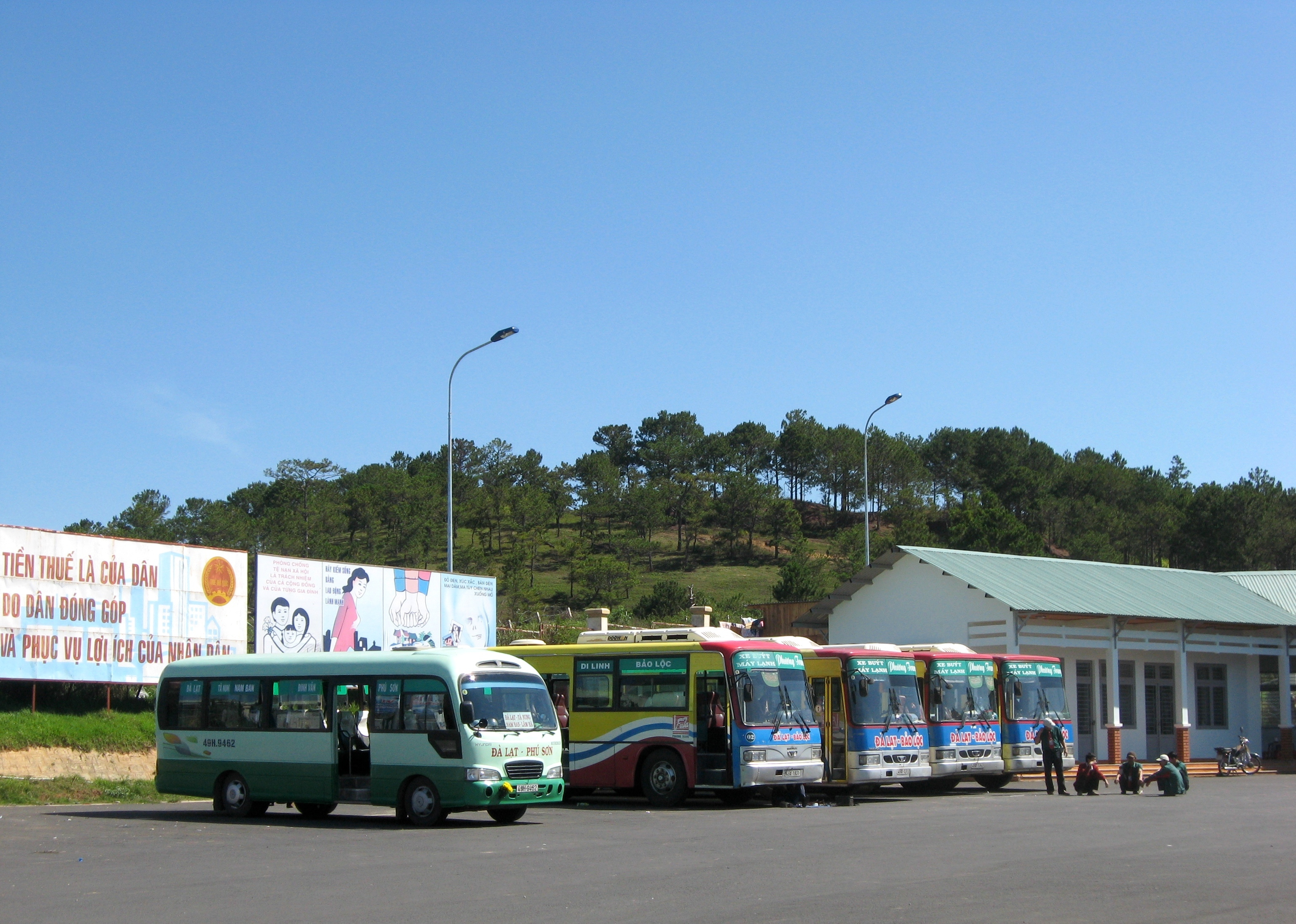 Bus station in Da Lat. near Mong Mo hill